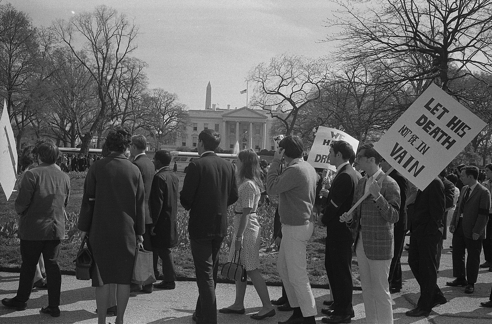 [Demonstrators with signs, one reading "Let not his death be in vain", in front of the White House, after the assassination of Martin Luther King, April, 1968]